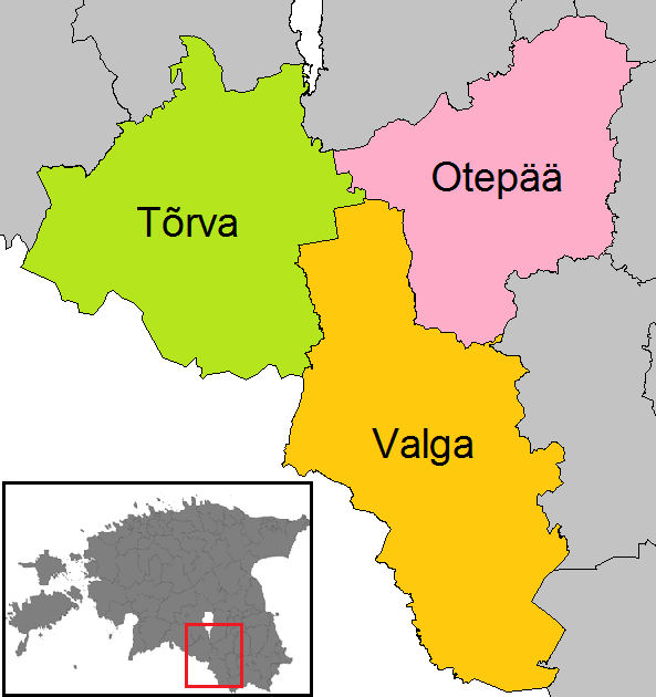 Map of the municipalities of Valga County after the Administrative Reform of Estonia in 2017.